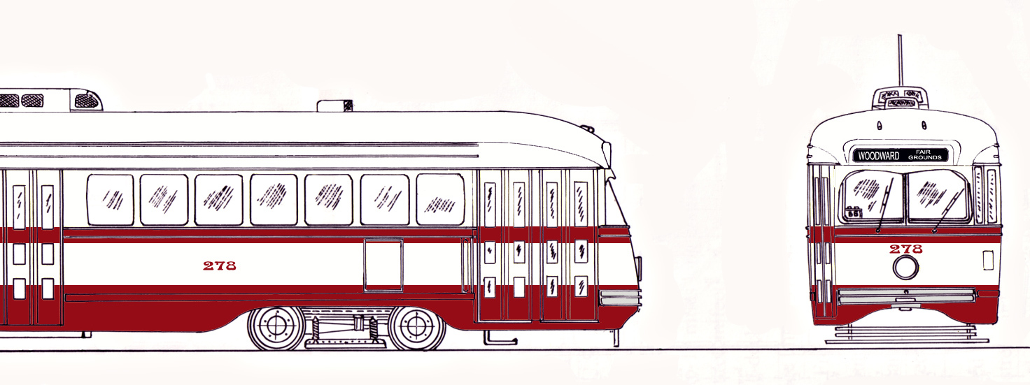 «(City of Detroit) Department of Street Railways : Color scheme» (original caption)